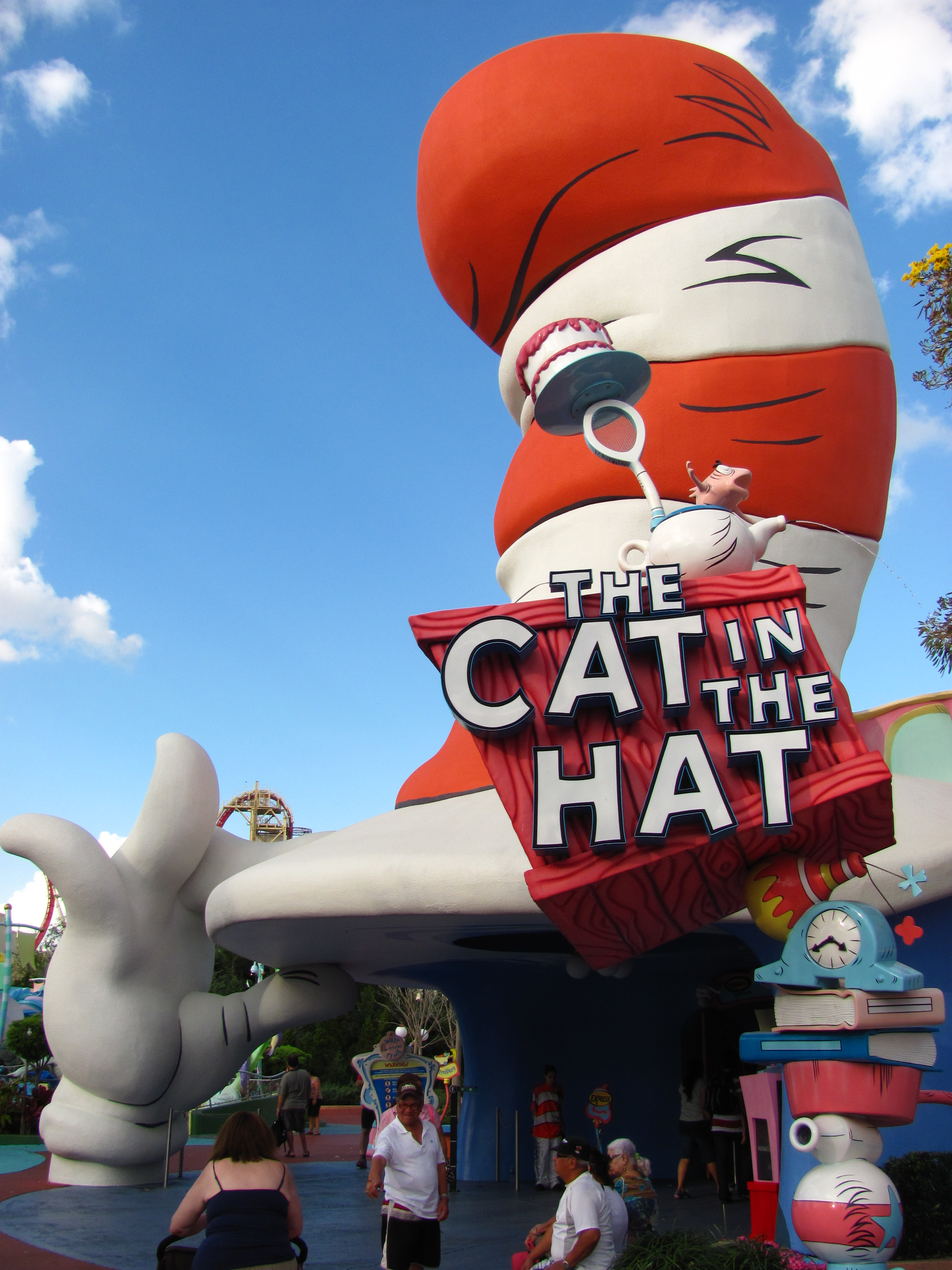 Quick stop on the Cat in the Hat.